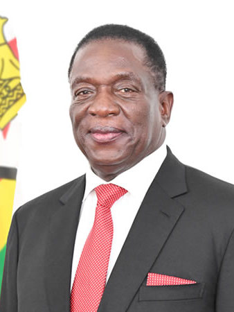 Official Portrait of the Third President of the Republic of Zimbabwe, Emmerson Mnangagwa, as issued by the Government of Zimbabwe for display in all public buildings.